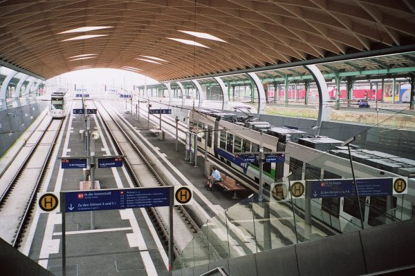 Kassel Hauptbahnhof (Kassel, Germany, Central Station), plattforms of the "Regiotram" System